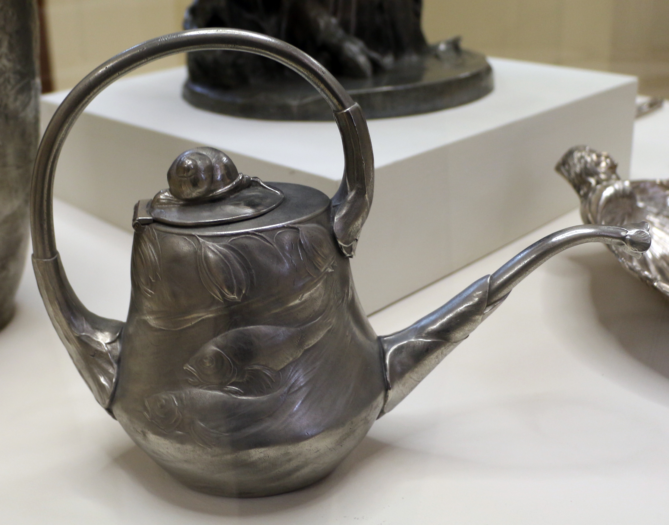 Decorative arts in the Musée d'Orsay